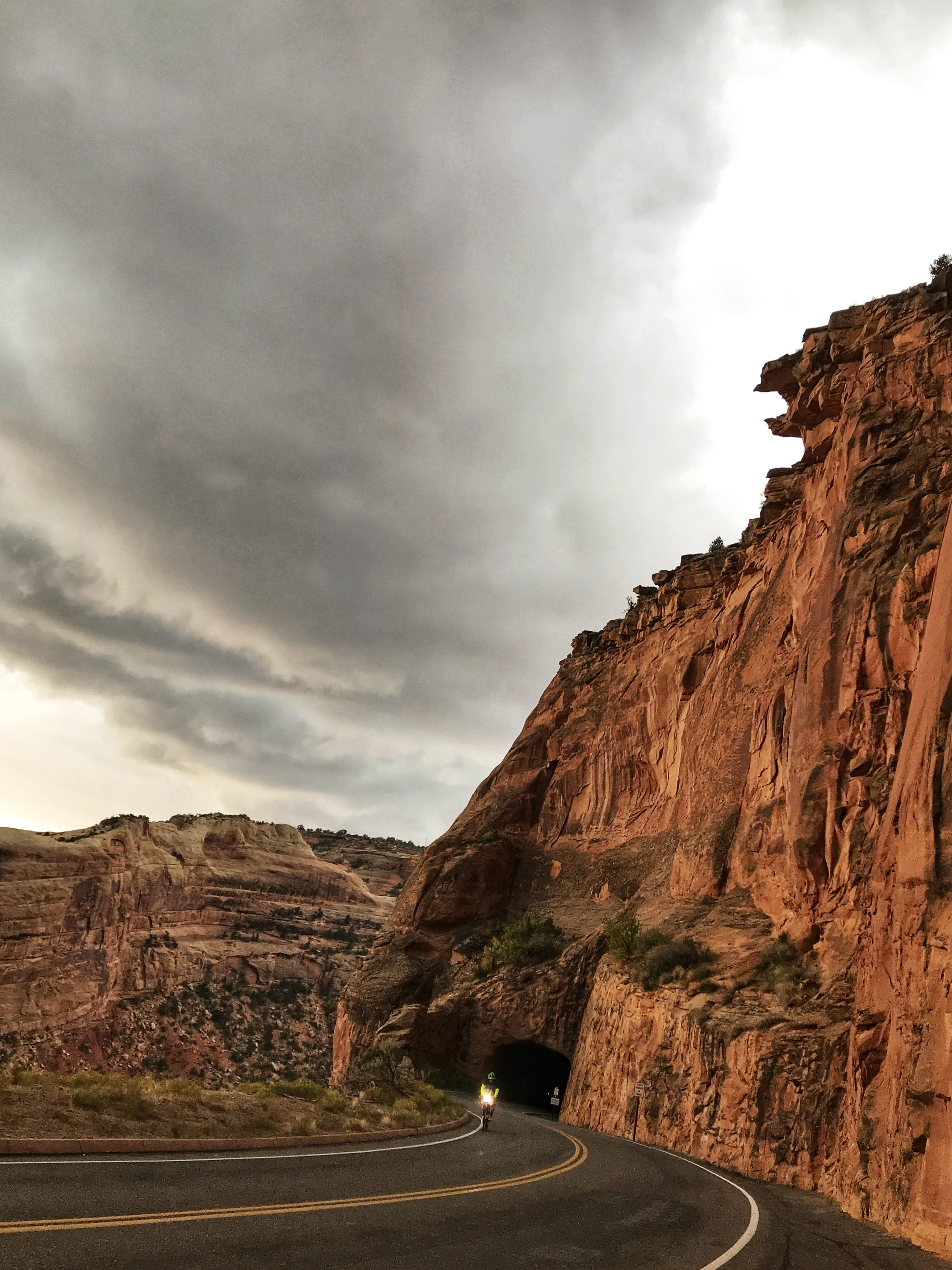 Cyclist about to ride through a tunnel in the Colorado National Monument park, September 30, 2017